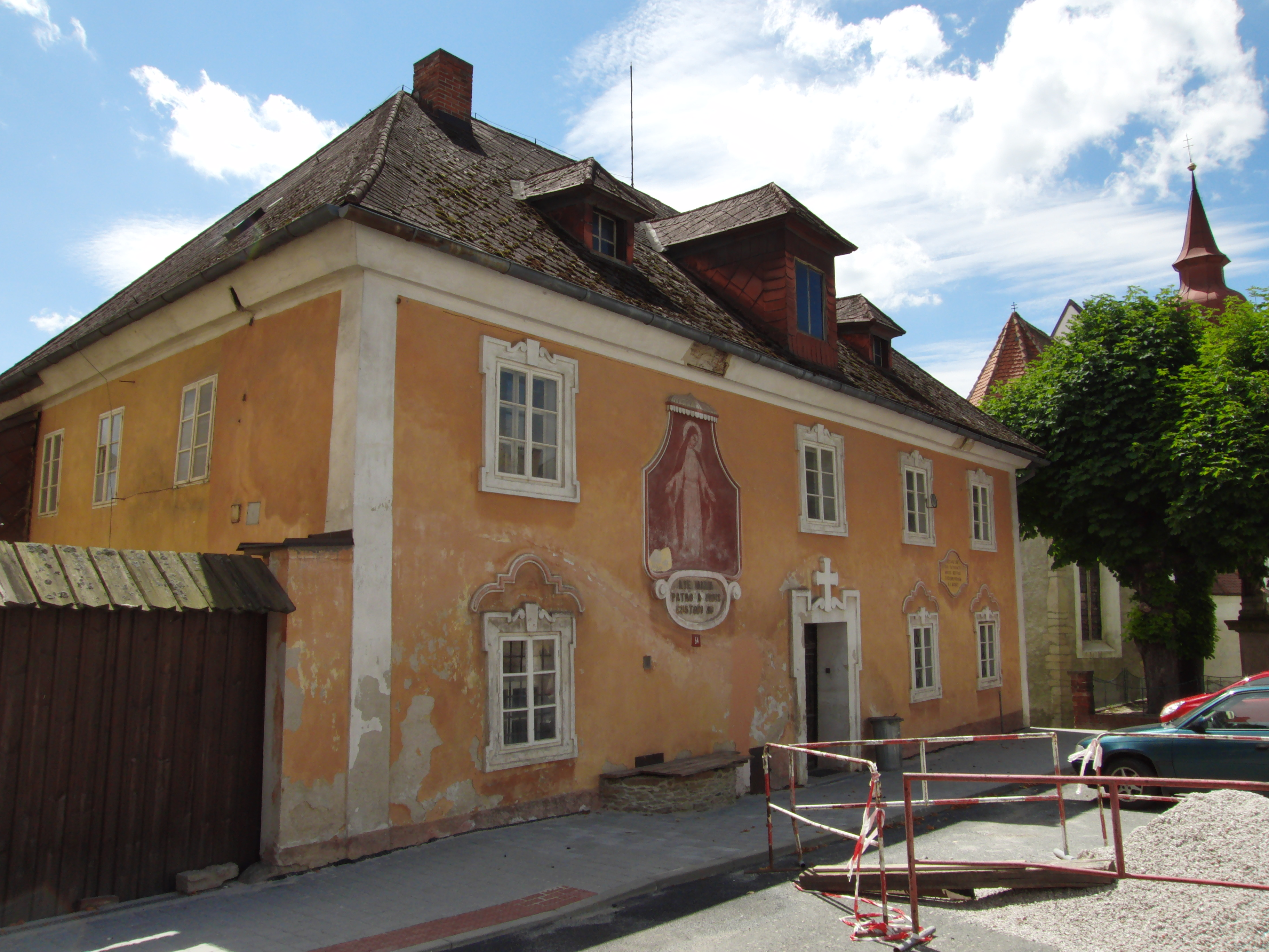 Poběžovice rectory (Domažlice district), cultural monument